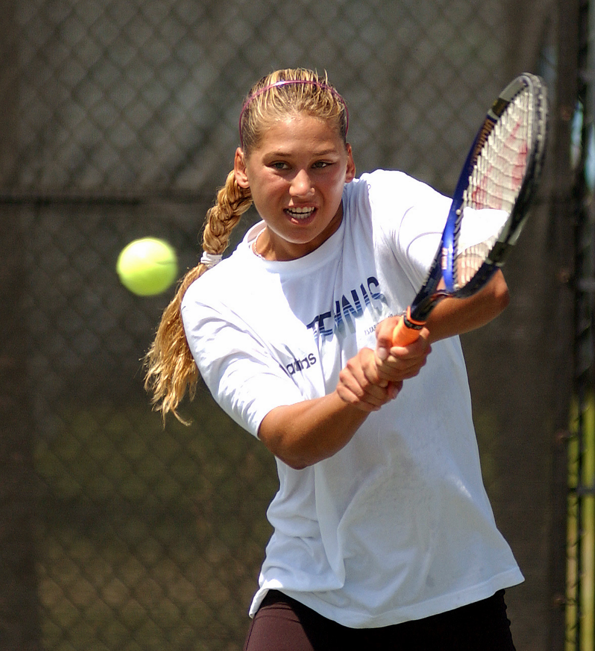 Russian tennis player Anna Kournikova, practices her backhand for a match at the Family Circle Cup Tennis Tournament on Daniel Island in Charleston, South Carolina, where hundreds of Charleston Air Force Base (AFB) personnel volunteer to provide security.